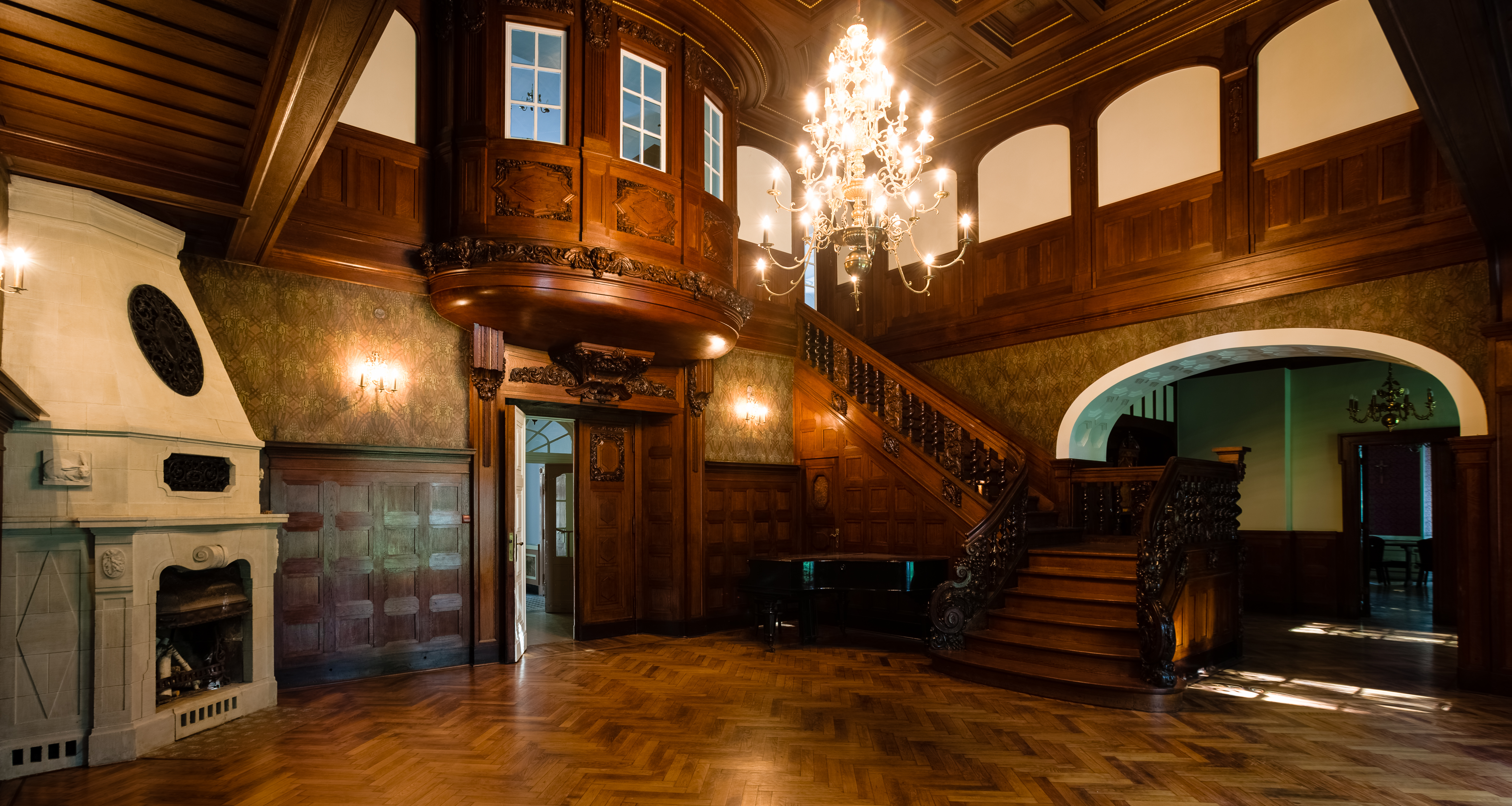 The palace complex (now the Salvatorians monastery): palace (oak vestibule)